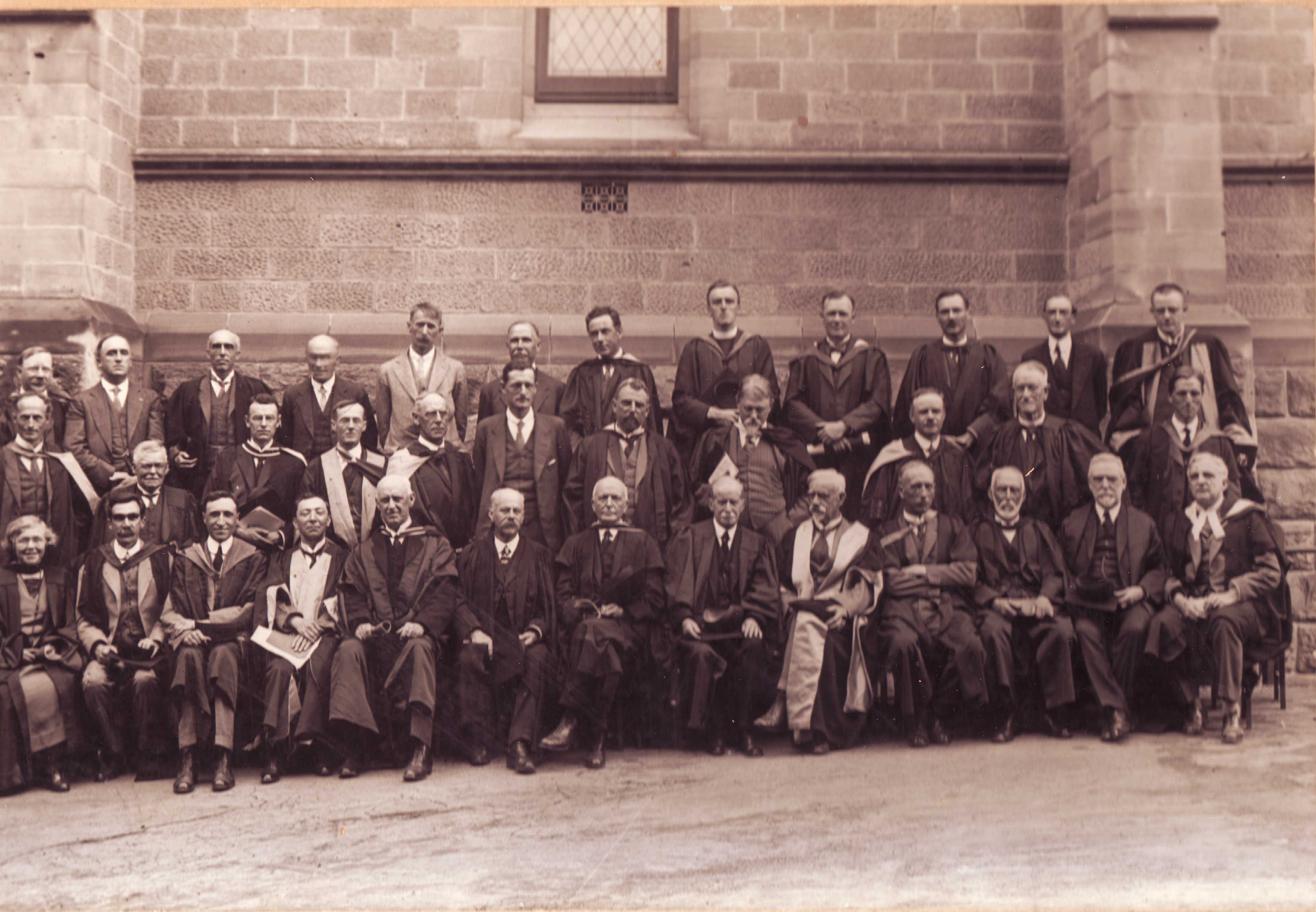 The University of Adelaide Council and Staff in 1923. Front row: Dr. Helen Mayo, Prof. Kerr Grant, Prof. Thorburn Robertson, Prof. Coleman Phillipson, Sir George Murray (Chancellor), Charles Hodge (Registrar), Sir William Mitchell (Vice-Chancellor), Sir George Brookman (Chair of Finance), Dr. W. Hayward, Prof. Robert Chapman, Prof. Edward Rennie, Sir Joseph Verco, Prof. H. Darnley Naylor. Middle row: Prof. Sir Douglas Mawson, William Fuller, S. Russell-Booth, Prof. T. Harvey Johnstone, Prof. E. Harold Davies, Cecil Madigan, Dr. Frank Sandland Hone, Dr. Robert Pulleine, E. Clark, Frederick Beven, Prof. John Wilton. Top row: Frederick Eardley (Asst. Registrar), H. Foote, Robert Steele, Robert Clucas, W. Ternent Cooke, David Hollidge, Herbert Gartrell, Rev. Kenneth Bickersteth, Dr. Stuart Pennycuick, Professor J. Cleland, "Bunnny" Henderson (Chief Clerk), Prof. Archibald Strong.